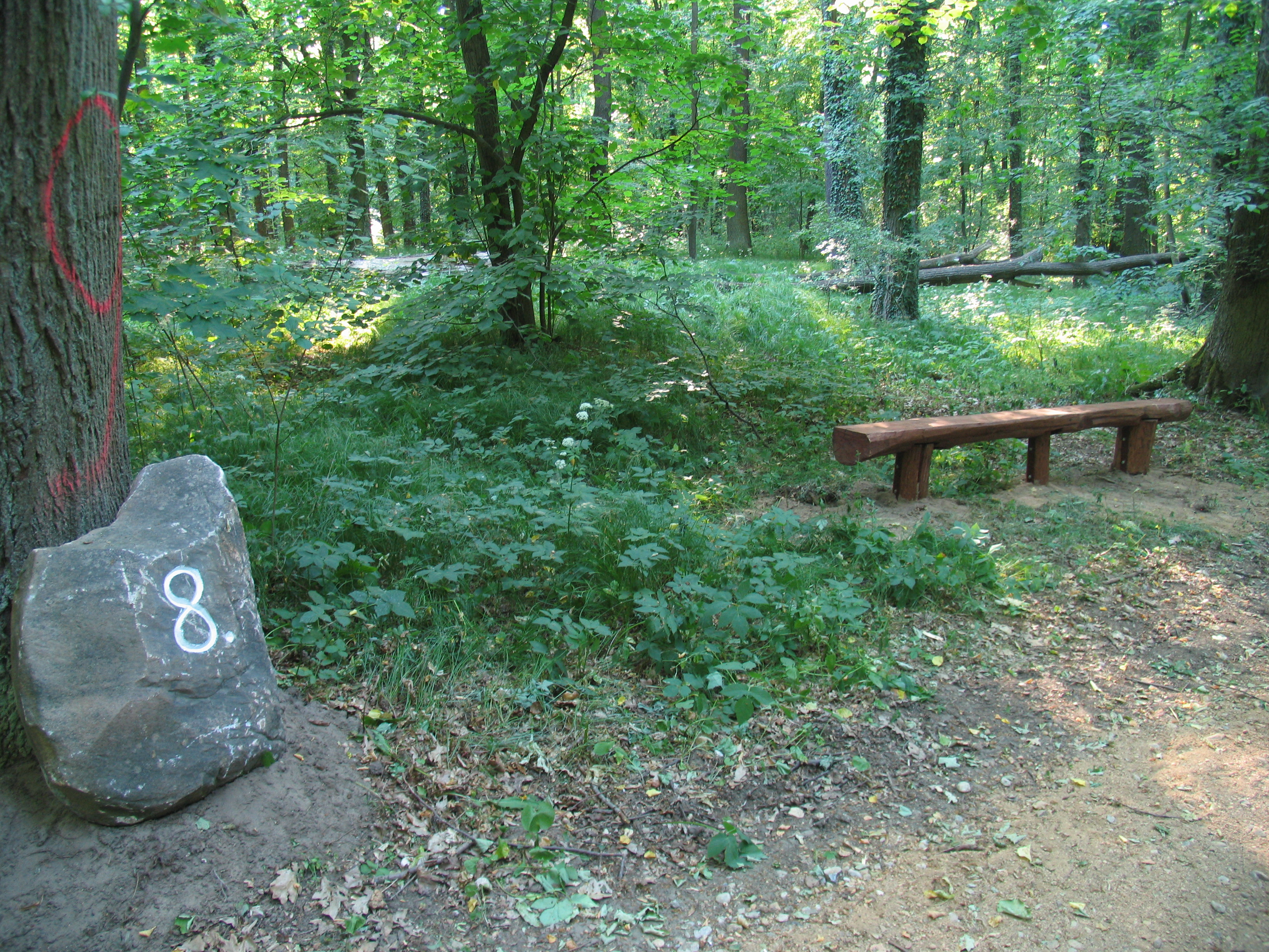 The Slavic Park in Szprotawa, Poland. Lesson point 8.